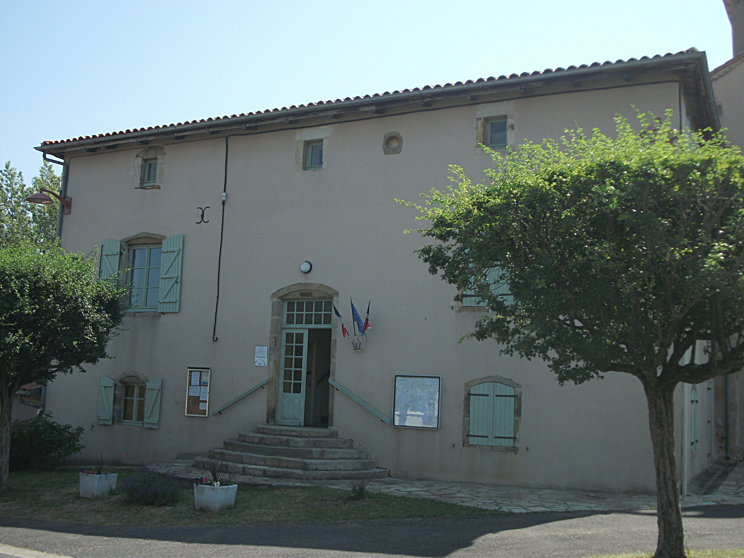 Town hall of Bongheat, Puy-de-Dôme, Auvergne-Rhône-Alpes, France. [14723]